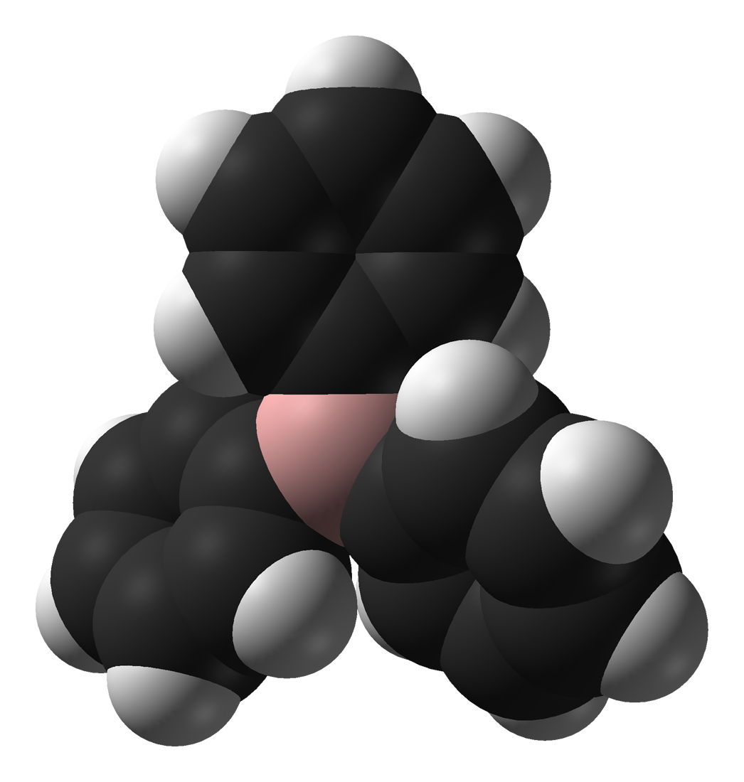 Space-filling model of the triphenylborane molecule, Ph3B, (C6H5)3B. X-ray diffraction data from J. Organomet. Chem. (1974) 72, 157-162. Model constructed in CrystalMaker 8.1. Image generated in Accelrys DS Visualizer.